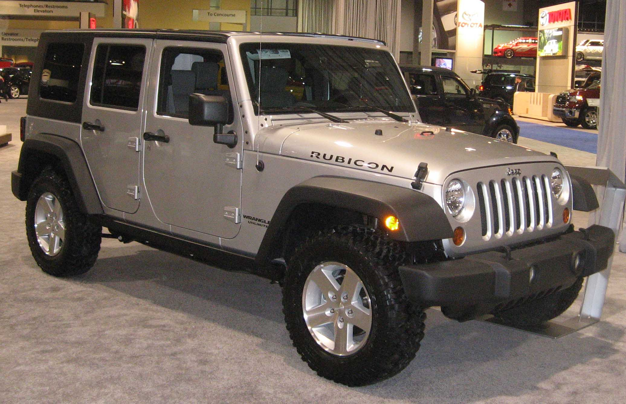 2008 Jeep Wrangler photographed at the 2008 Washington DC Auto Show.